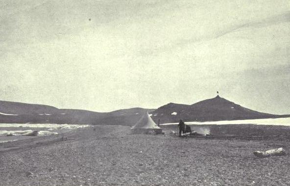 Photograph of Rodgers Harbor Camp, Wrangel Island, one of the camps used by the stranded Karluk party, 1914